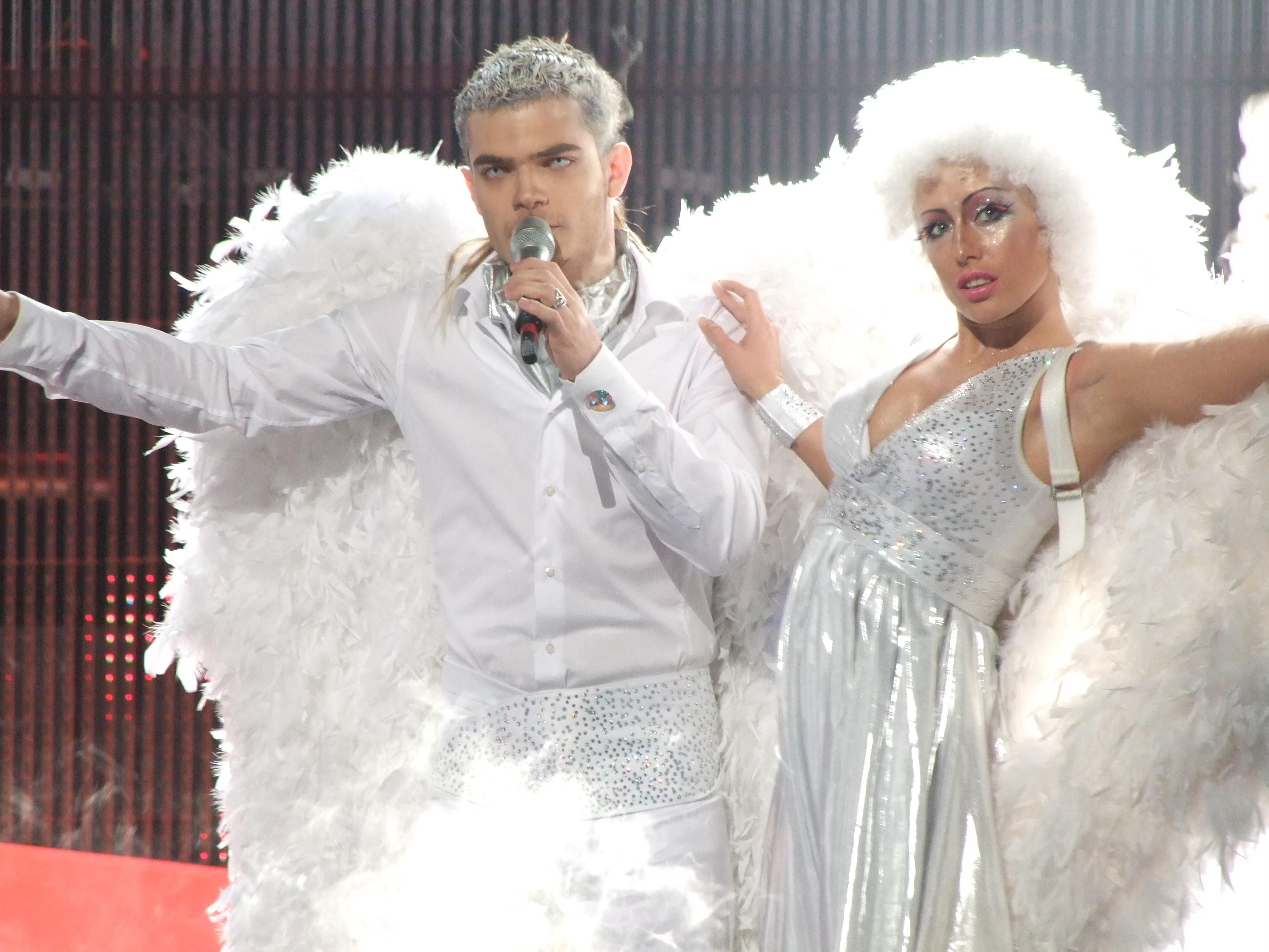 Eurovision Song Contest 2008, 1st semifinal Azerbaijan: Elnur - Day after day